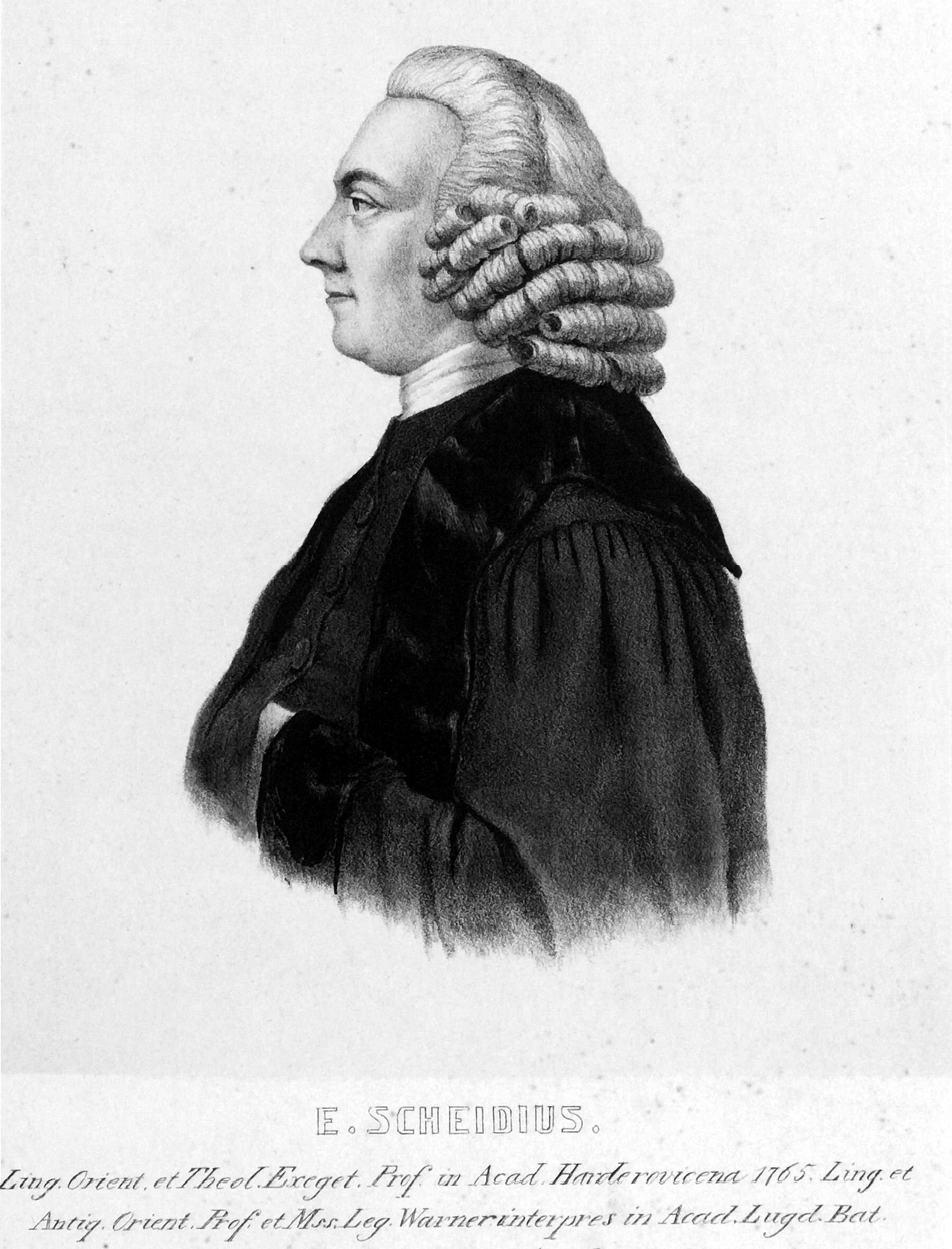 Everard Scheidius (1742-1794) Dutch Reformed theologian, philologist and Orientalist